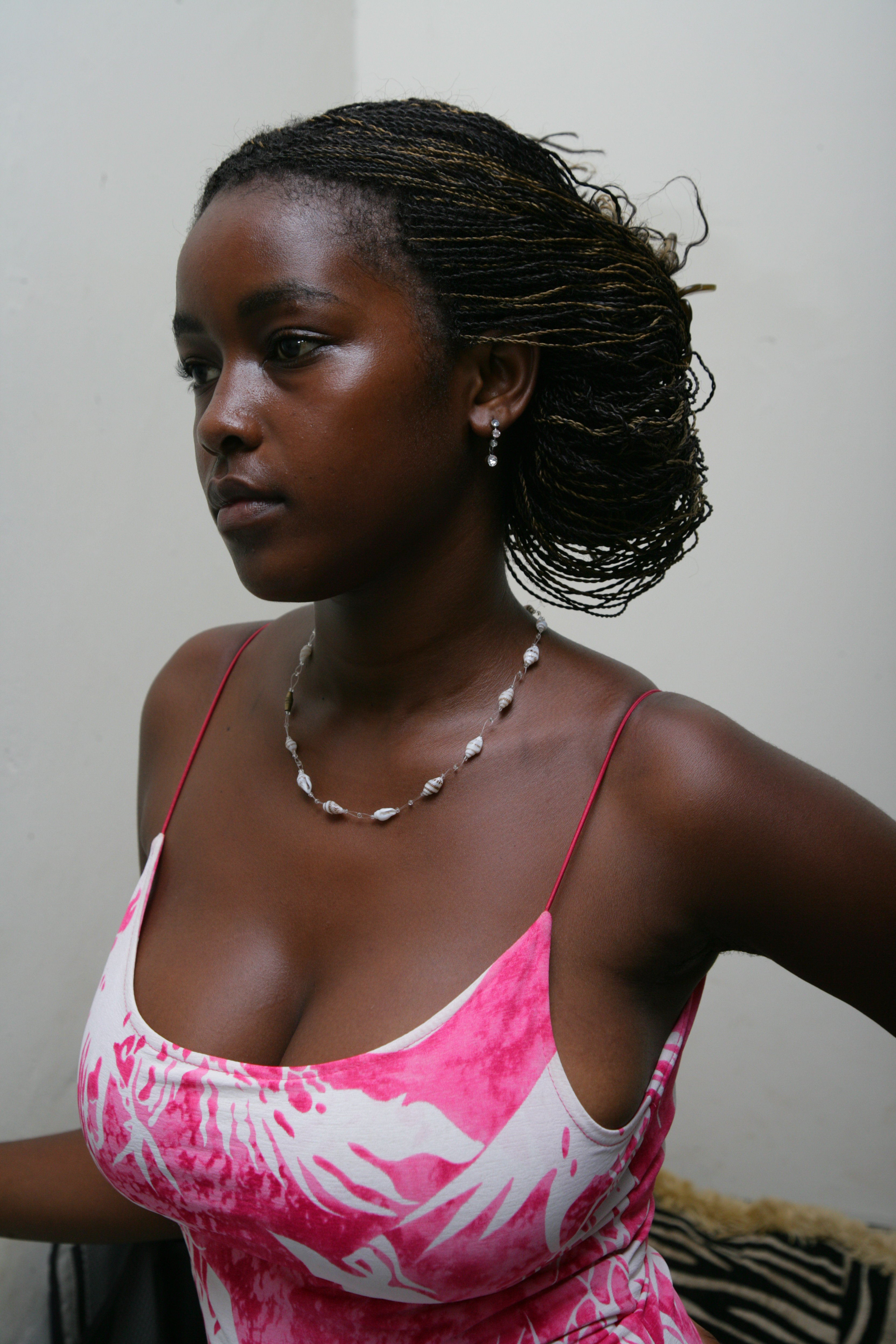 Young black woman.